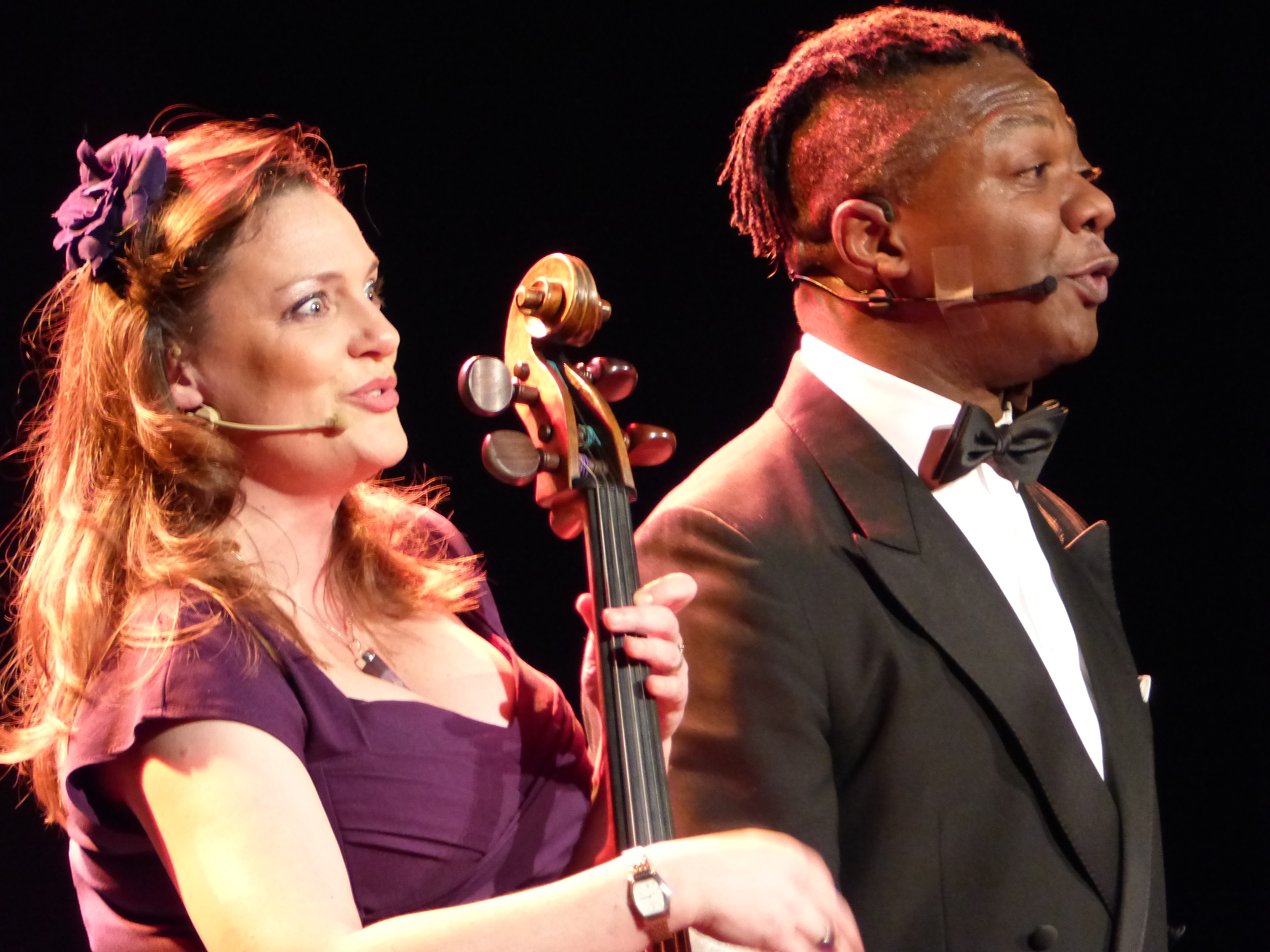 Carrington-Brown at the Schwerter Kleinkunstpreis presentation, 2015